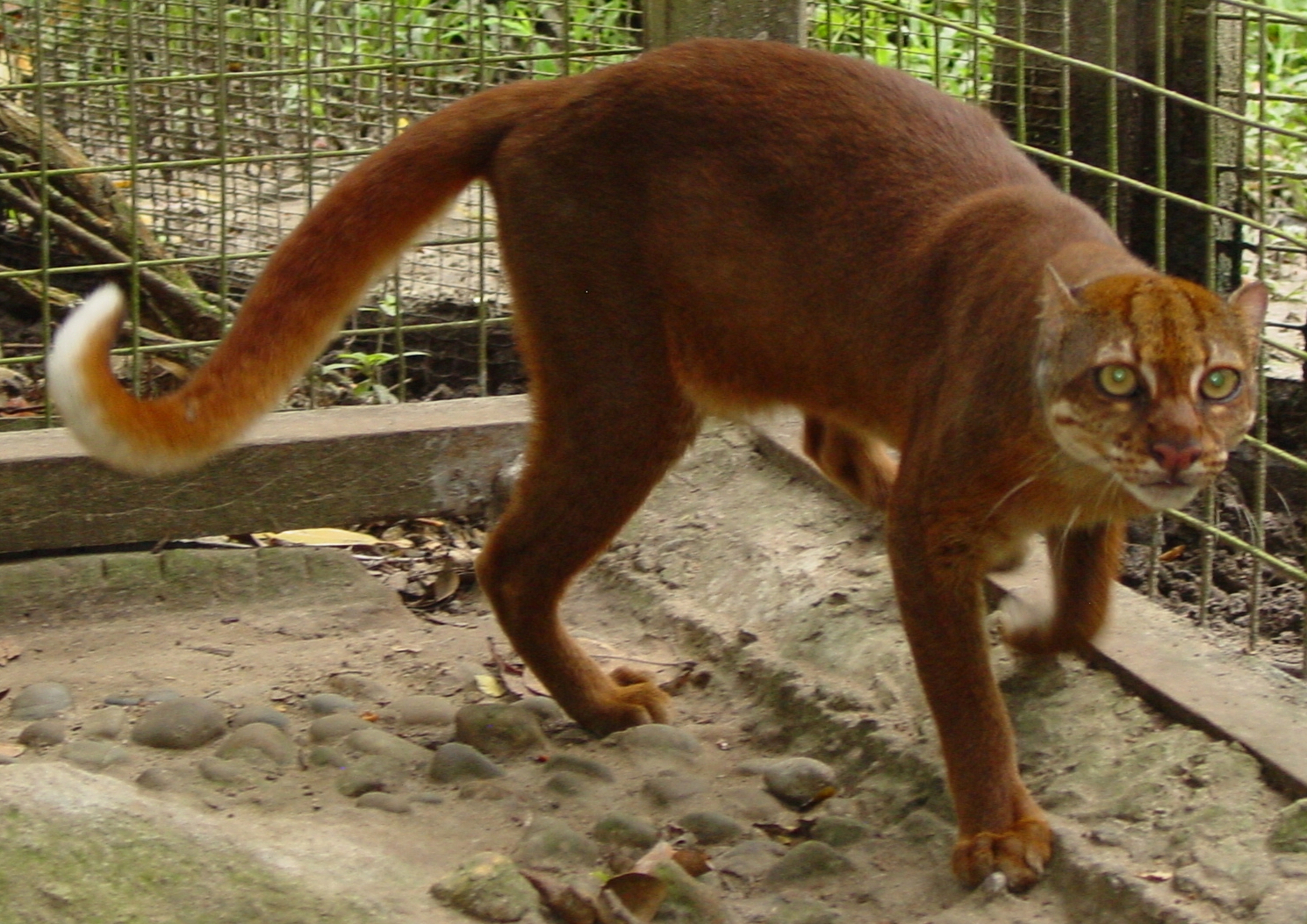 A captive bay cat in Sarawak, 2005